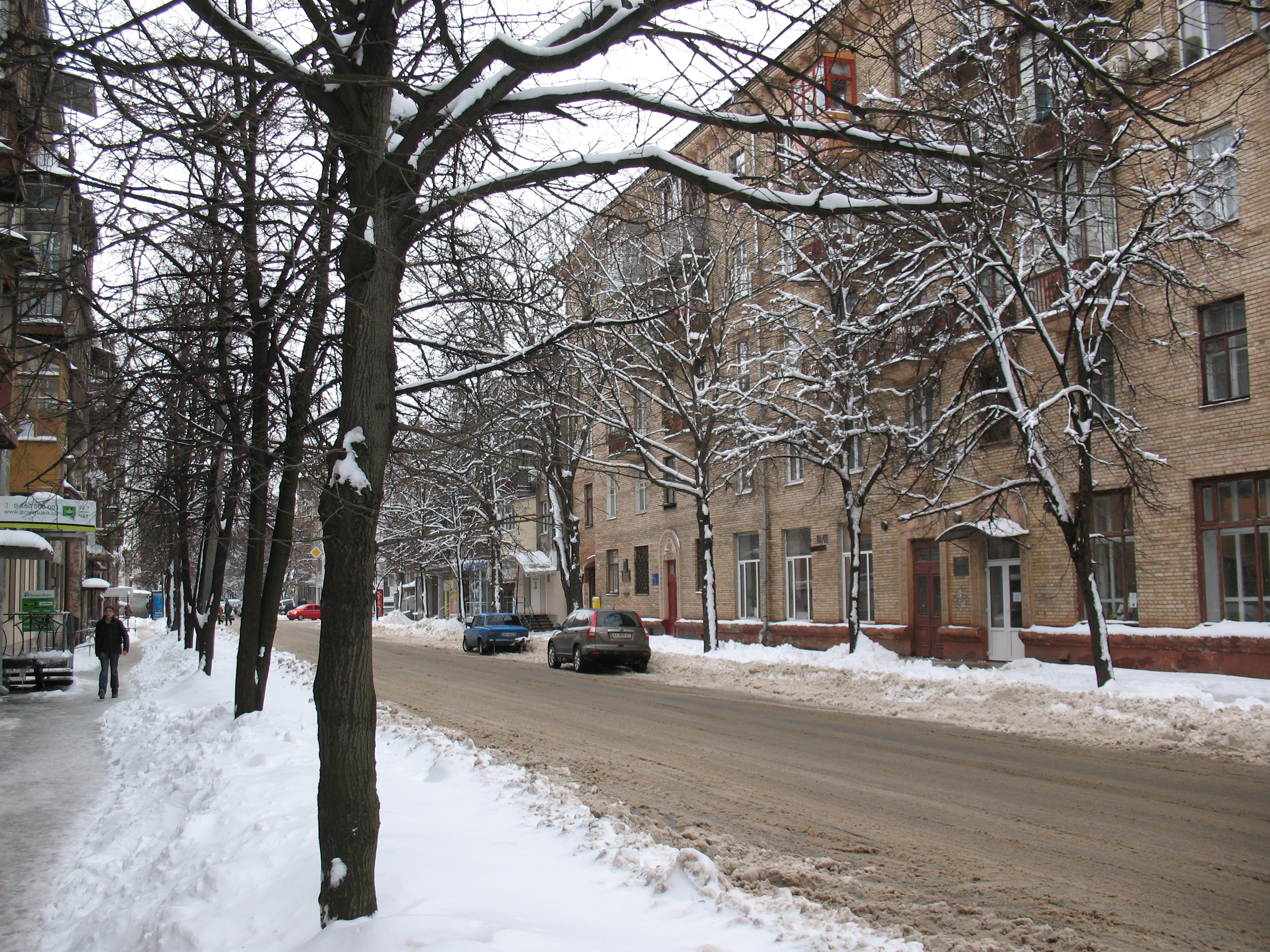 Kharkov City. Mironositskaya street (81/85) in winter.